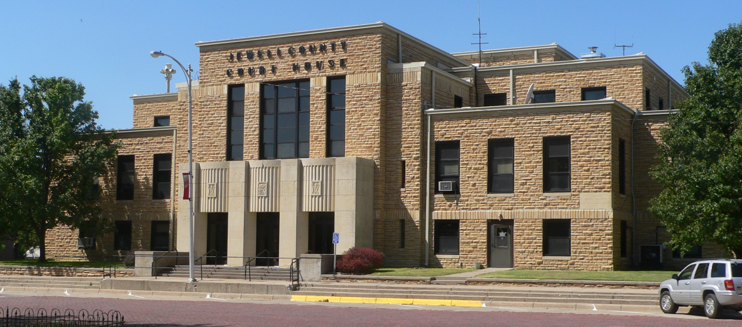 Jewell County Courthouse in Mankato, Kansas: center of east side of building.